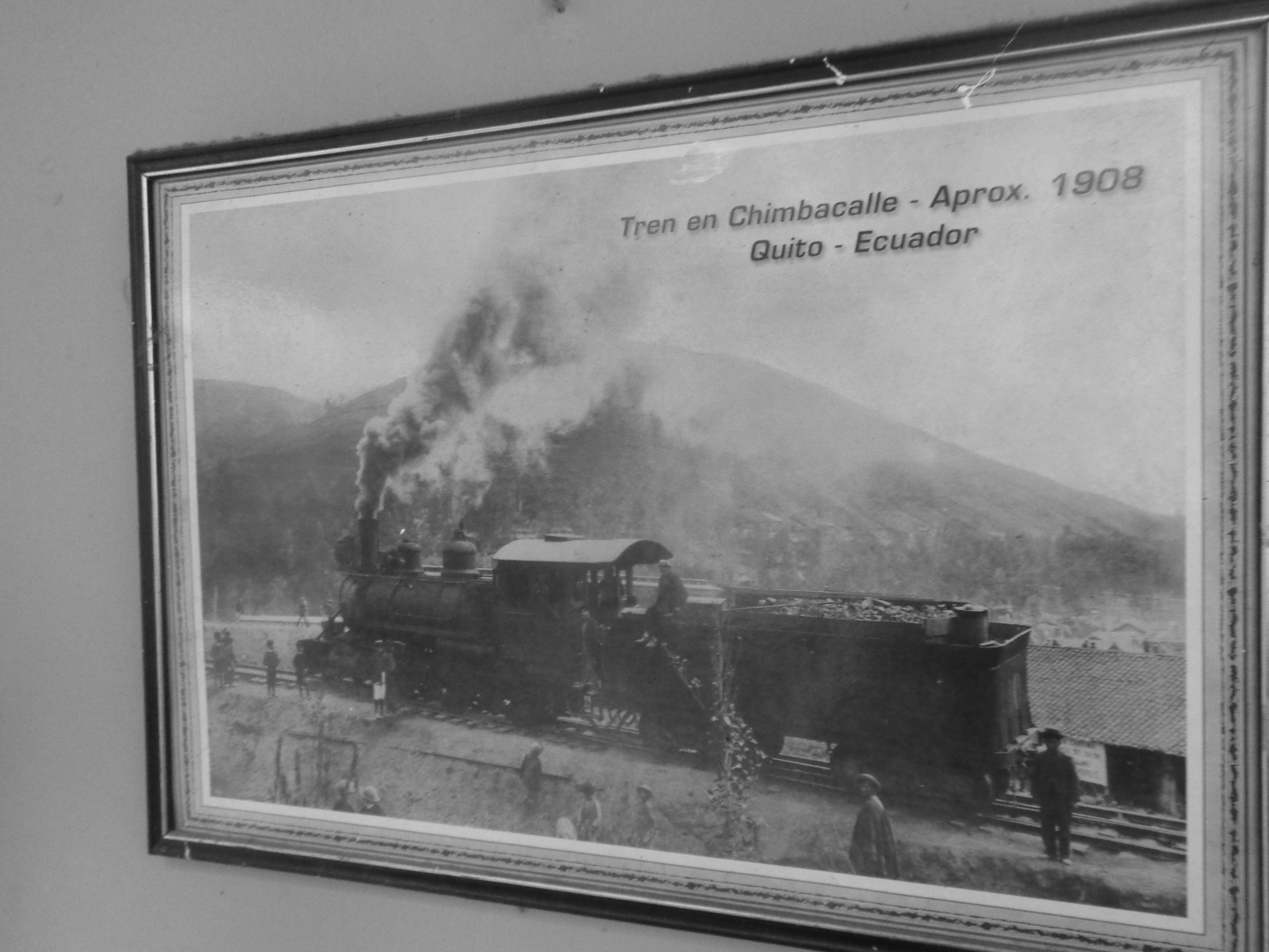 tren chimbacalle quito train 1908 south america andes mountains this is from 1908. i do not own this photo. it is over 100 years old.tren chimbacalle quito train 1908 south america andes mountains this is from 1908. i do not own this photo. it is over 100 years old.tren chimbacalle quito train 1908 south america andes mountains